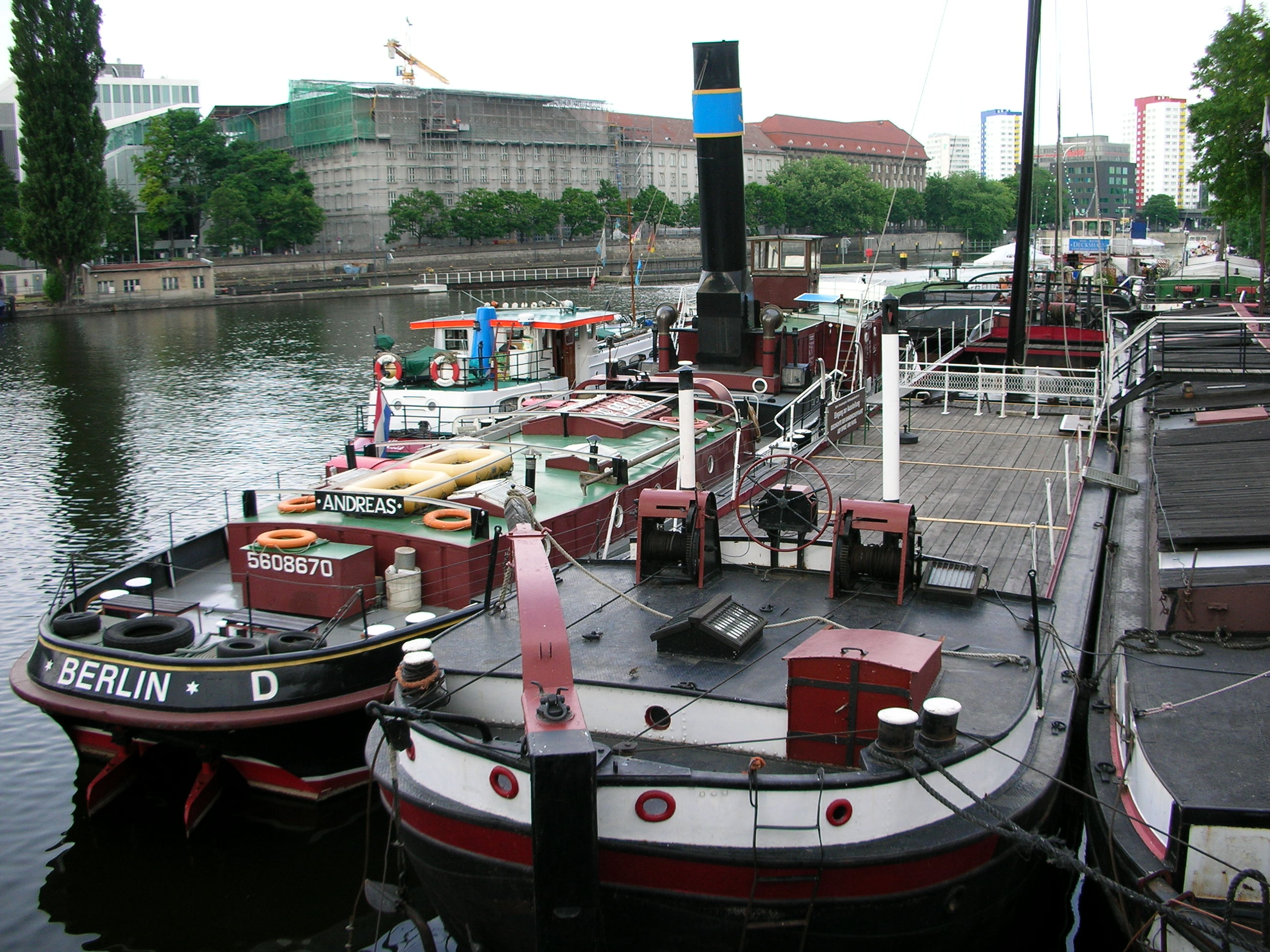 Boats and ships at the Historischer Hafen (historic harbour) in Berlin